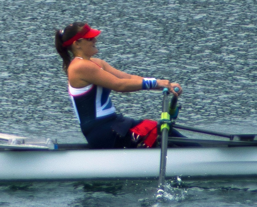 Samantha Scowen, Mixed Double Sculls TAMix2